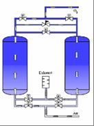 PSA Process